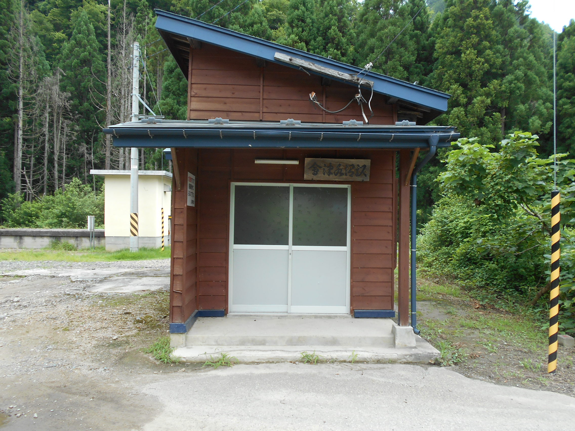 Aizu-Mizunuma Station on the Tadami Line in Fukushima Prefecture, Japan